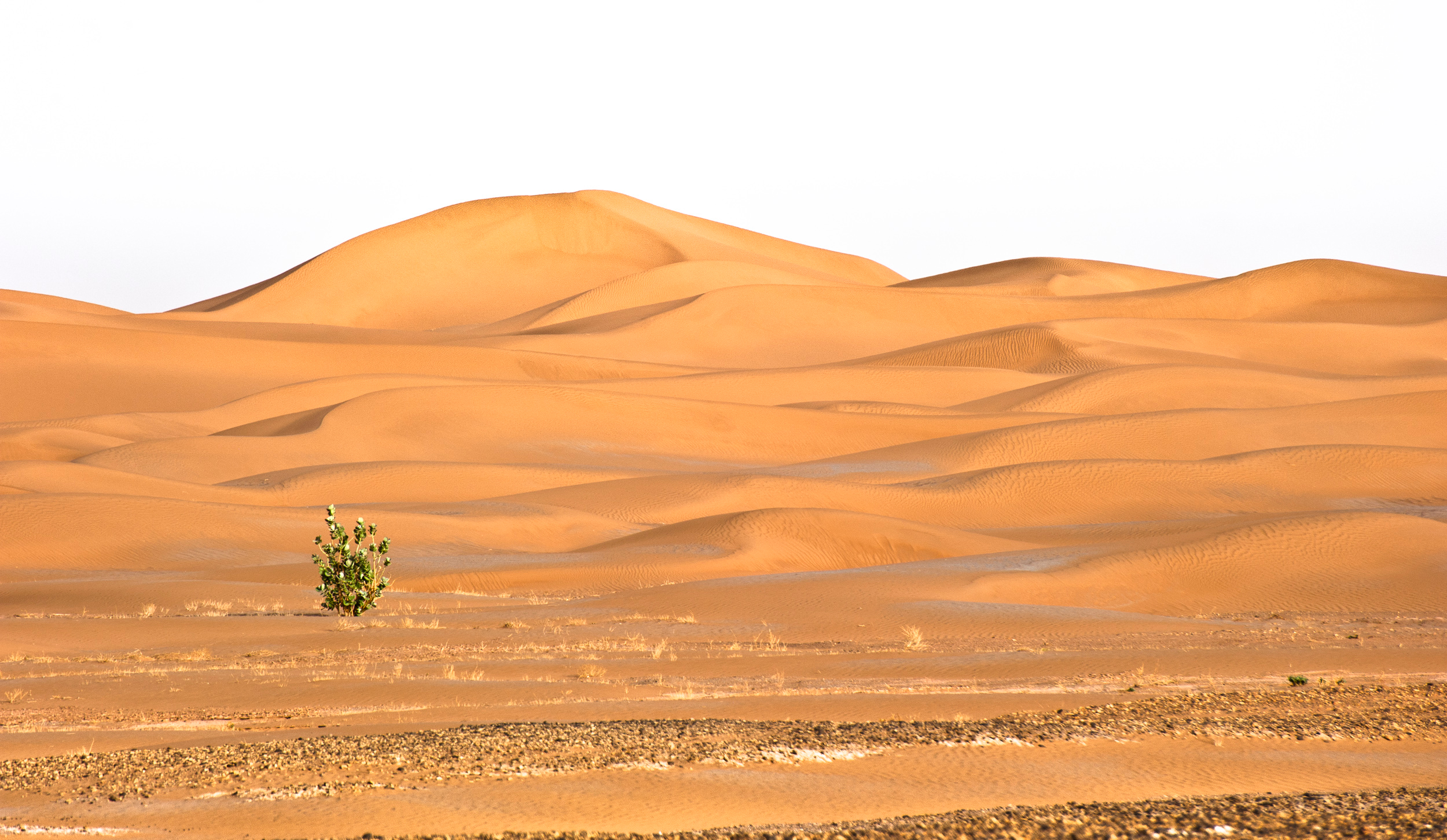 Erg Chegaga desert, this shot was done after a desert storm, August 2018